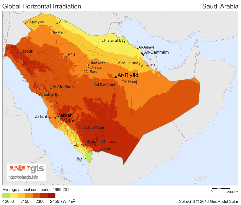 Solar Radiation Map: Global Horizontal Irradiation Map of Saudi Arabia, SolarGIS. English version.